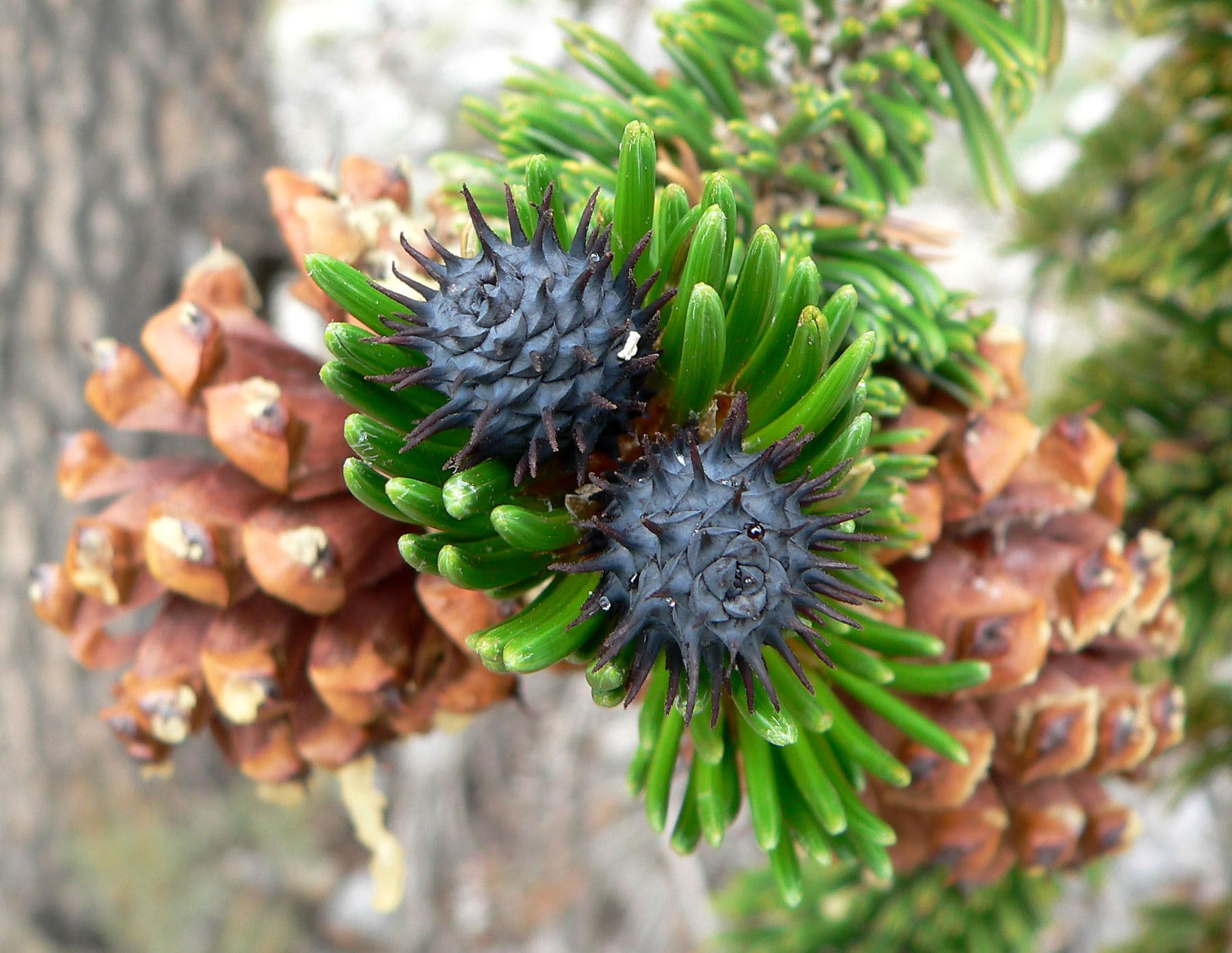 Pinus longaeva on the North Loop trail east of Mummy Mountain, Spring Mountains, southern Nevada (elev. about 2900 m)